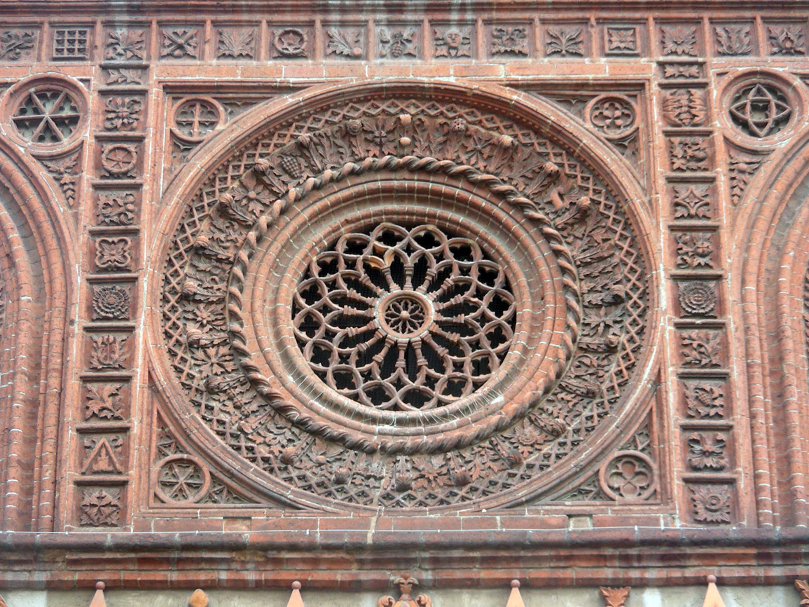 Italy, Lombardy, Monza, church of Santa Maria in Strada, front